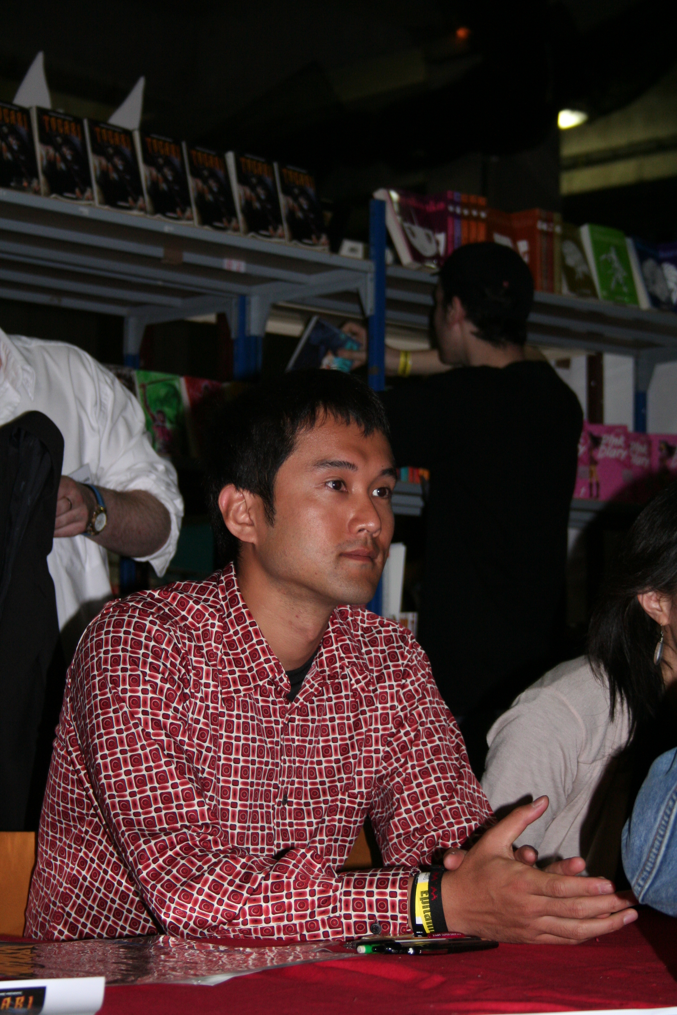 Autograph session with Yoshinori Natsume at Epitanime 2006 (Paris, France).